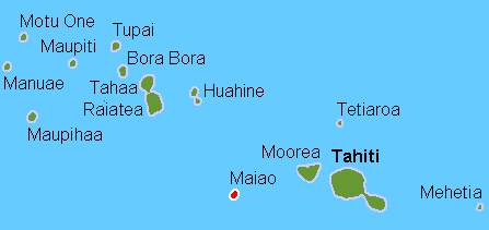 Location of Maiao within Society Islands, French Polynesia